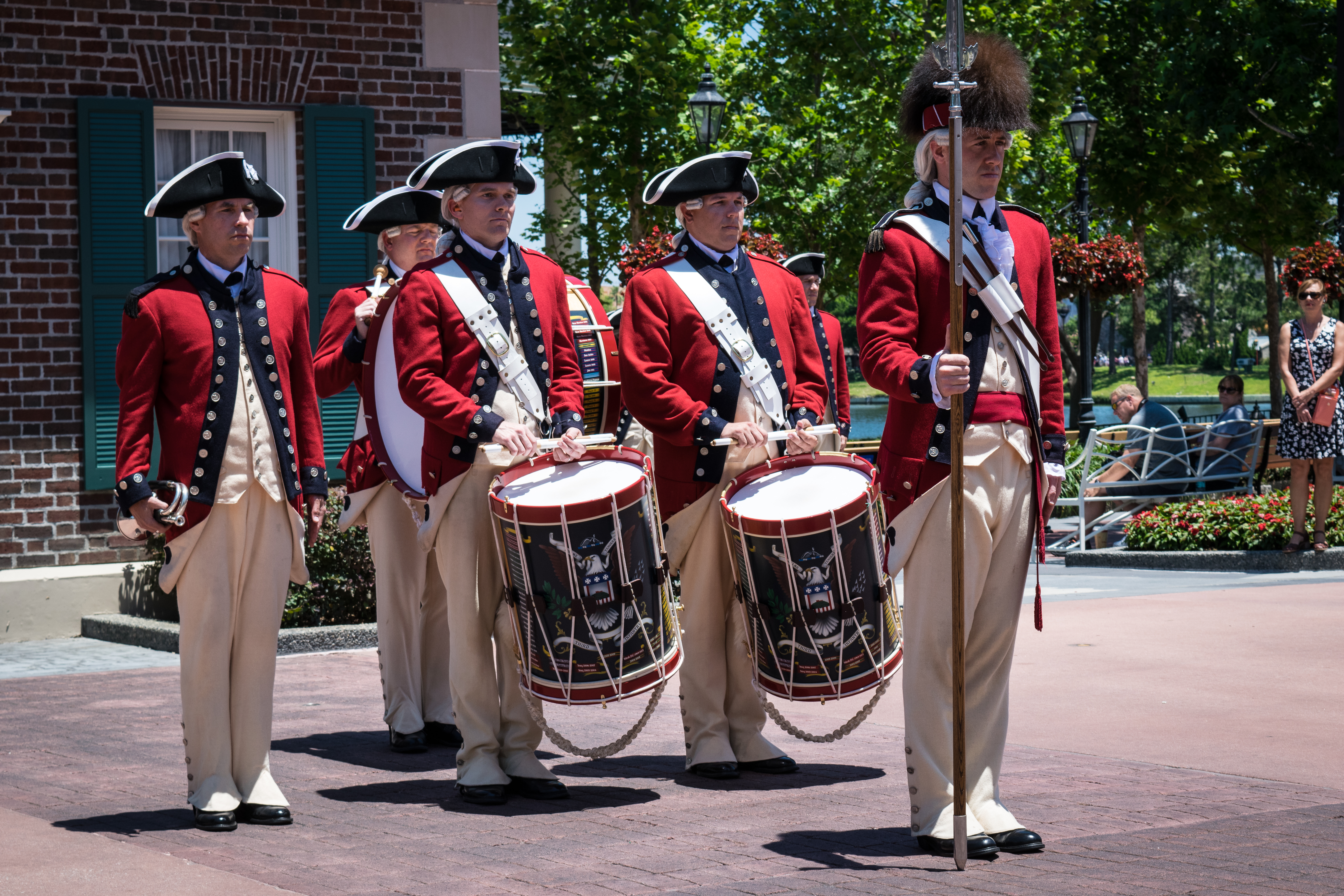 Invictus-Disney-208